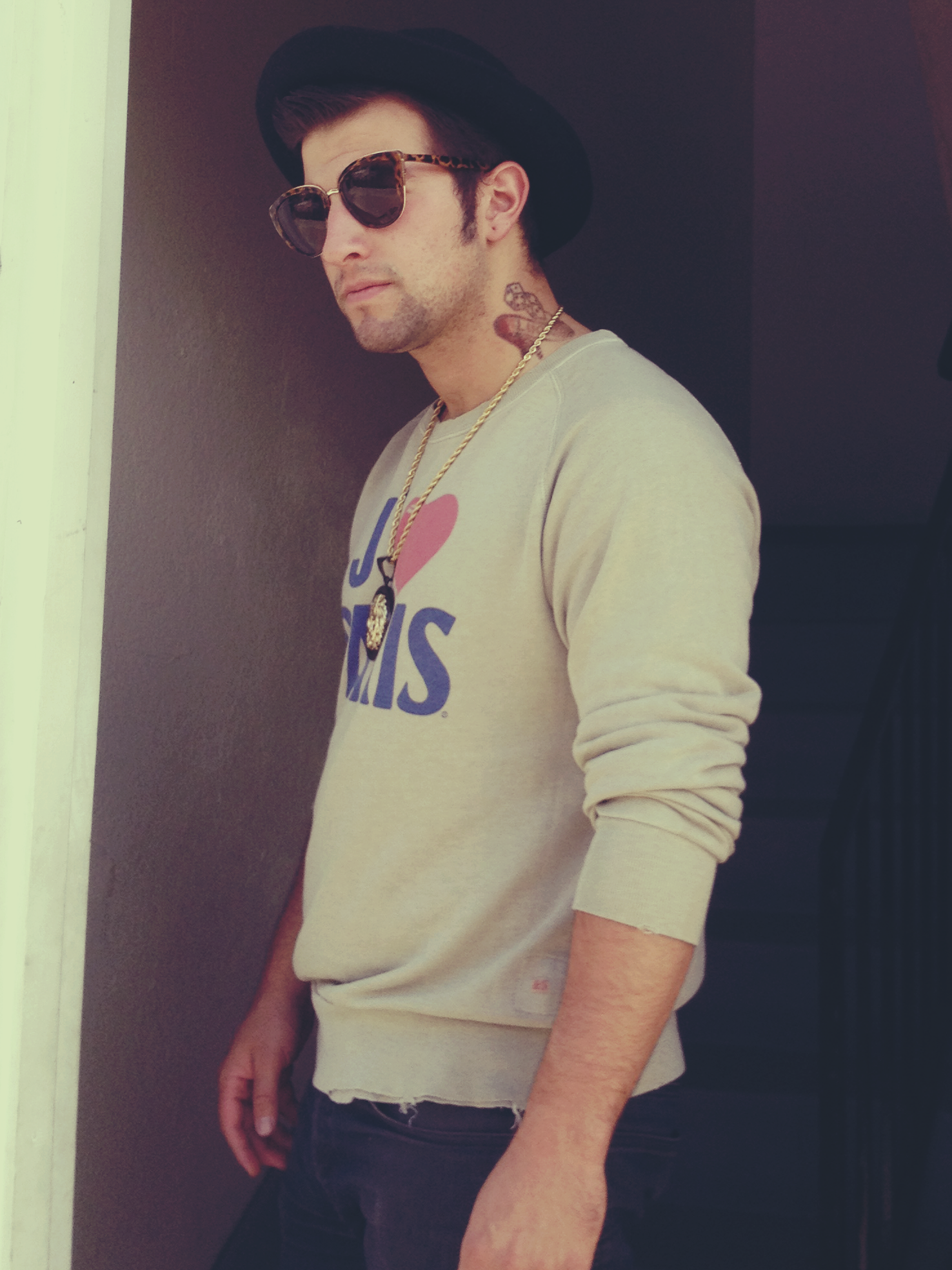 Photo of Hammy Down Versace in Atwater Village 2014